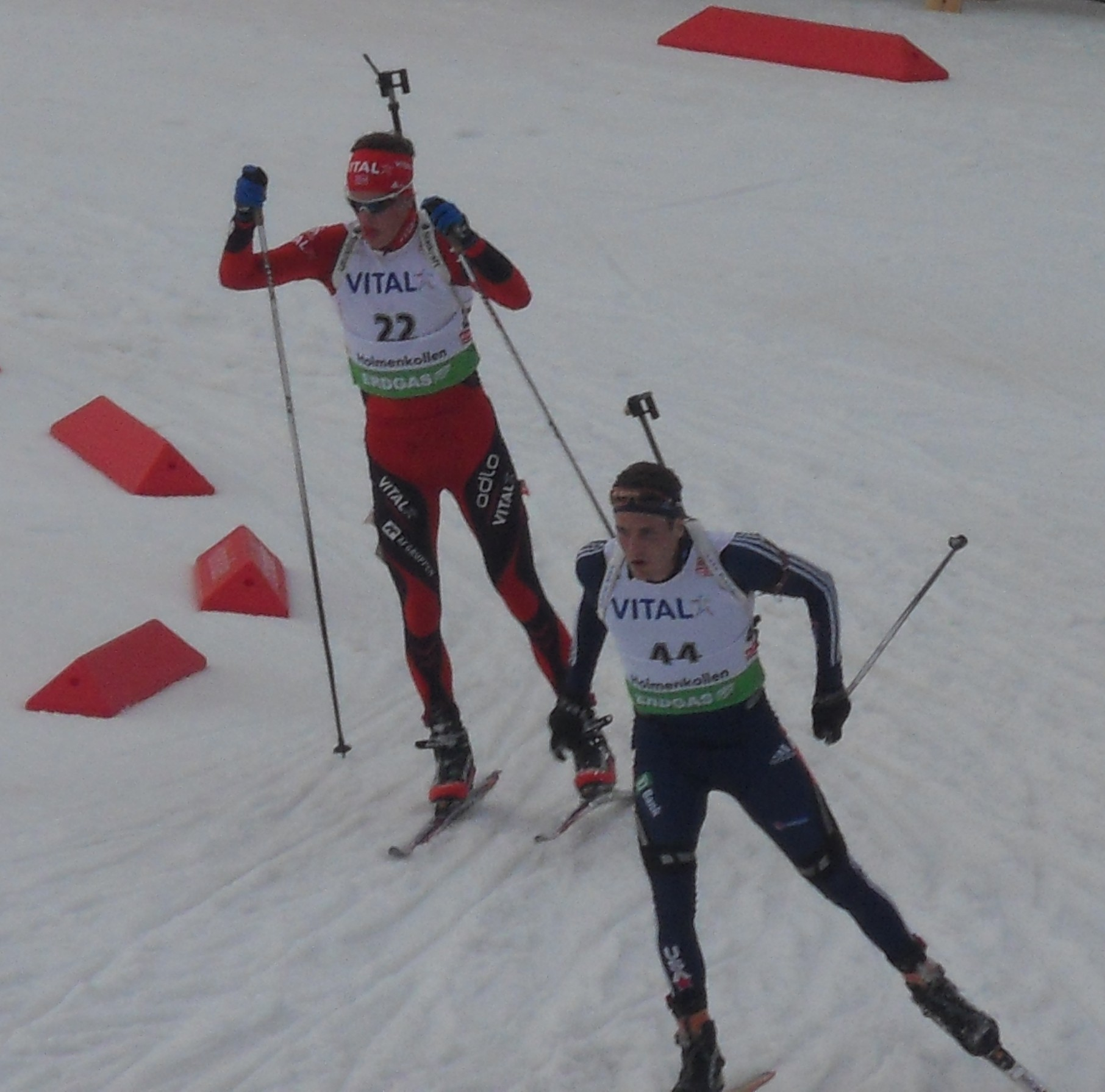 Tarjei Bø (Norway) (left) and Tim Burke (United States) at the World Cup Biathlon in Oslo